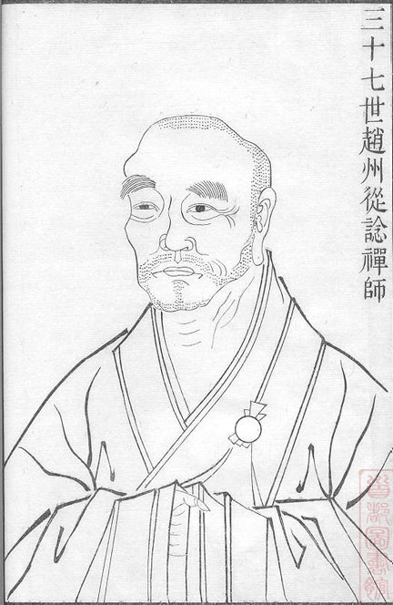 Zhaozhou Congshen (778–897), a late Tang Dynasty monk of Zen (or Ch'an) Buddhism. Woodcut, Ching dynasty; caption:「三十七世趙州從諗禪師」